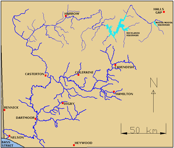 Map of Glenelg River, Victoria. Constructed by 'Lentisco' 10/12/2006